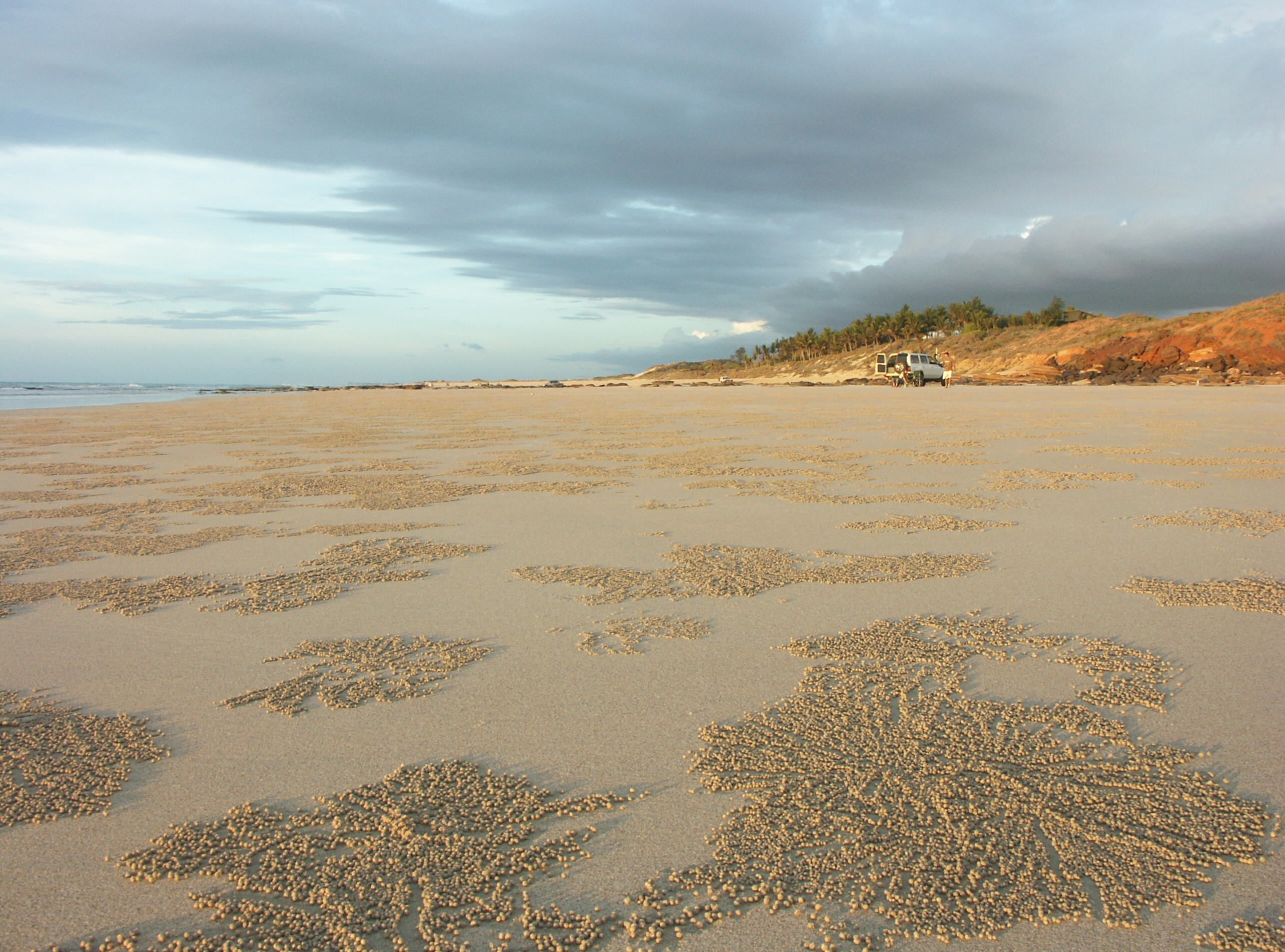 Cable Beach, Broome. Taken Before sunset.